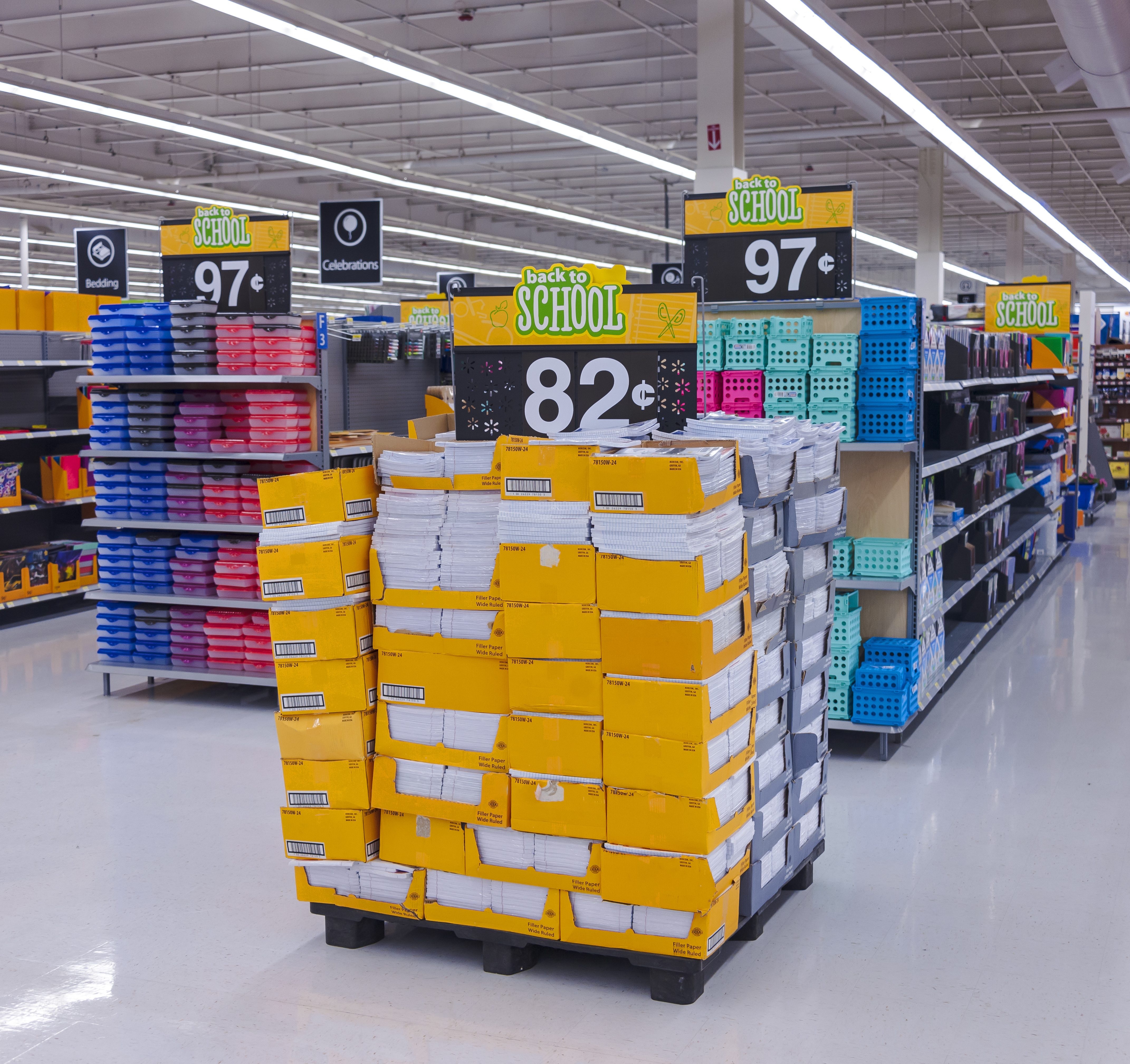 Merchandise in a back-to-school display at a Walmart store outside Kingston, NY, USA, almost two months before the beginning of the school year.